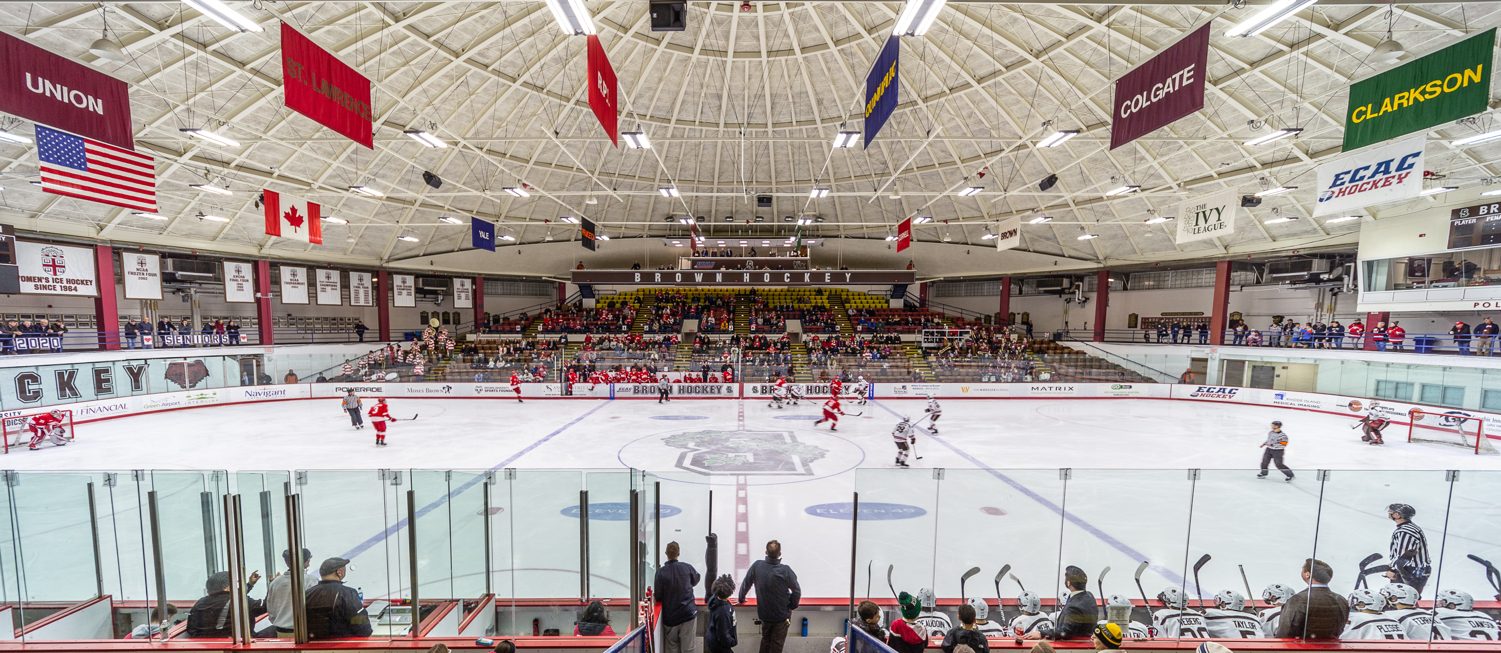 Cornell vs Brown ice hockey, Meehan Auditorium, Feb 22, 2020. Cornell won, 3-0.